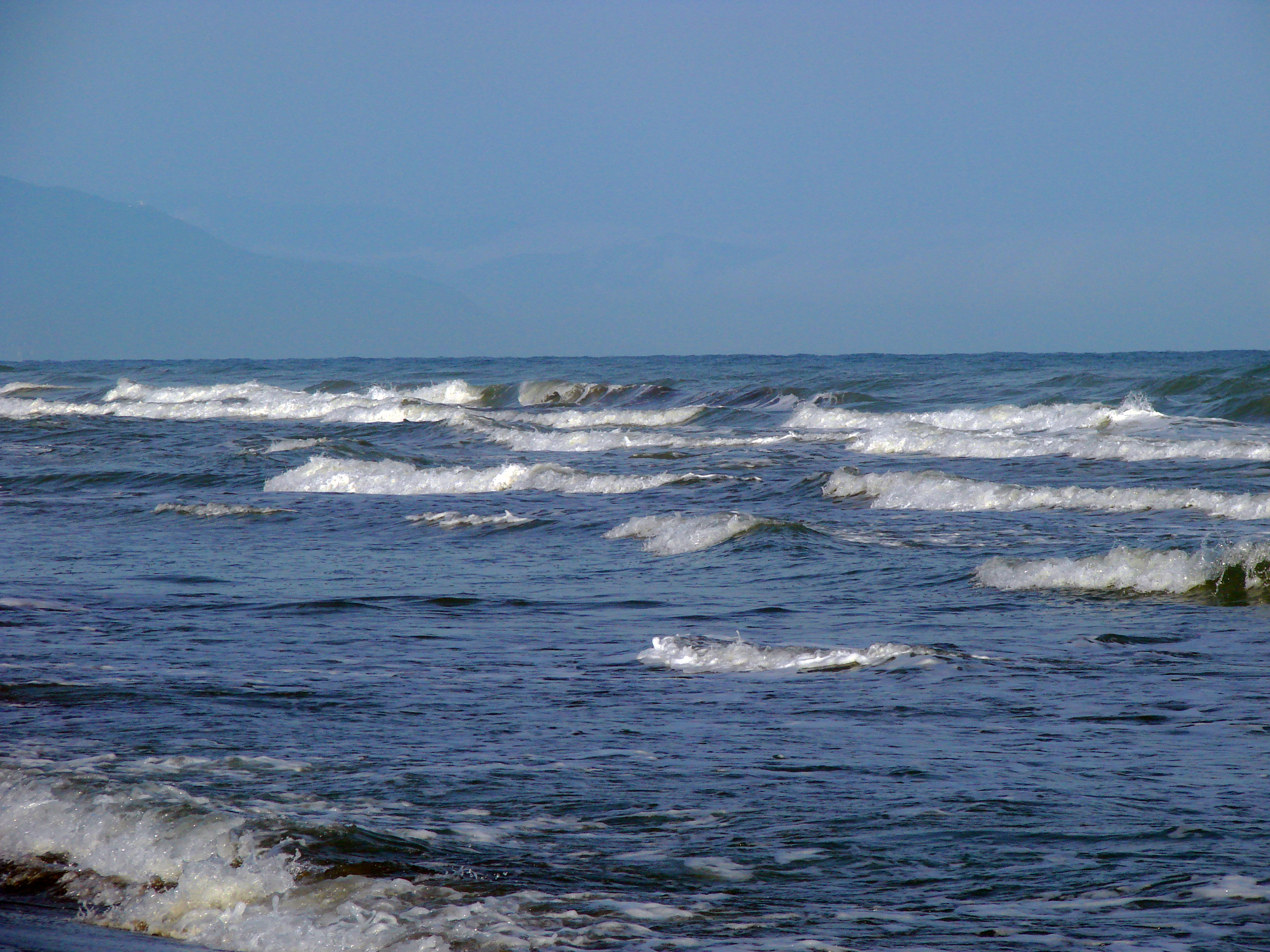 Mahmudabad is a city in and the capital of Mahmudabad County, Mazandaran Province, Iran.